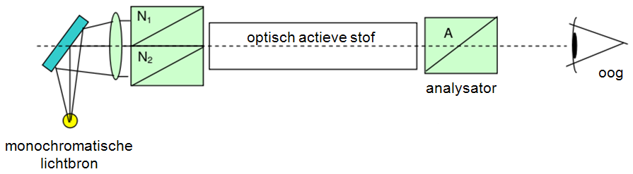 Polarimeter